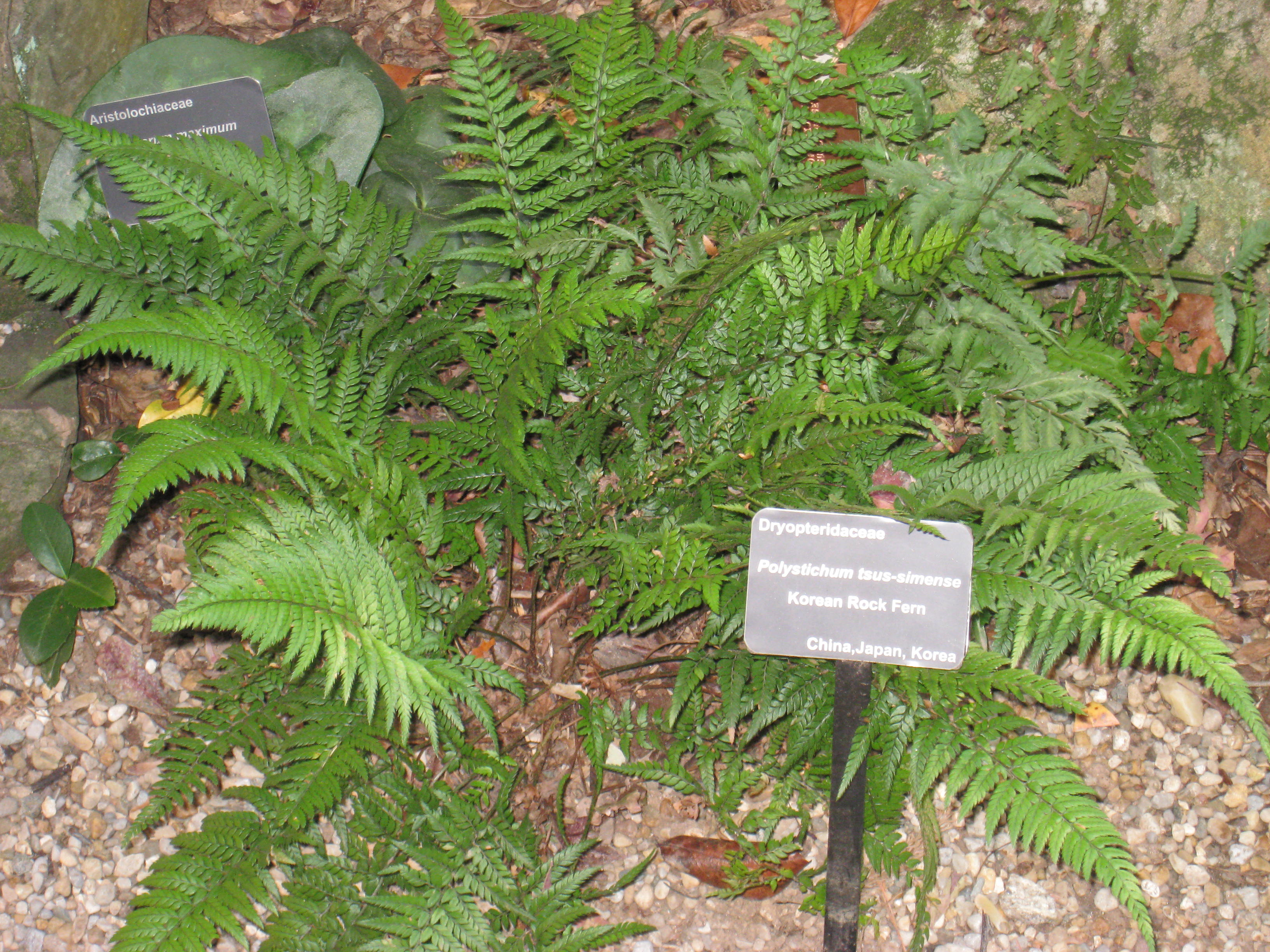 Polystichum tsus-simense. Specimen in the Atlanta Botanical Garden, Atlanta, Georgia, USA.